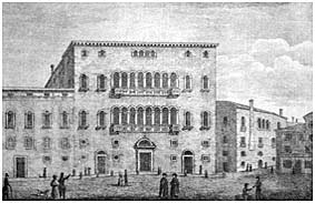 The palace of the Pola family in Treviso. Palác hrabat Polů v Trevisu. Das Palais der Grafen von Pola in Treviso.